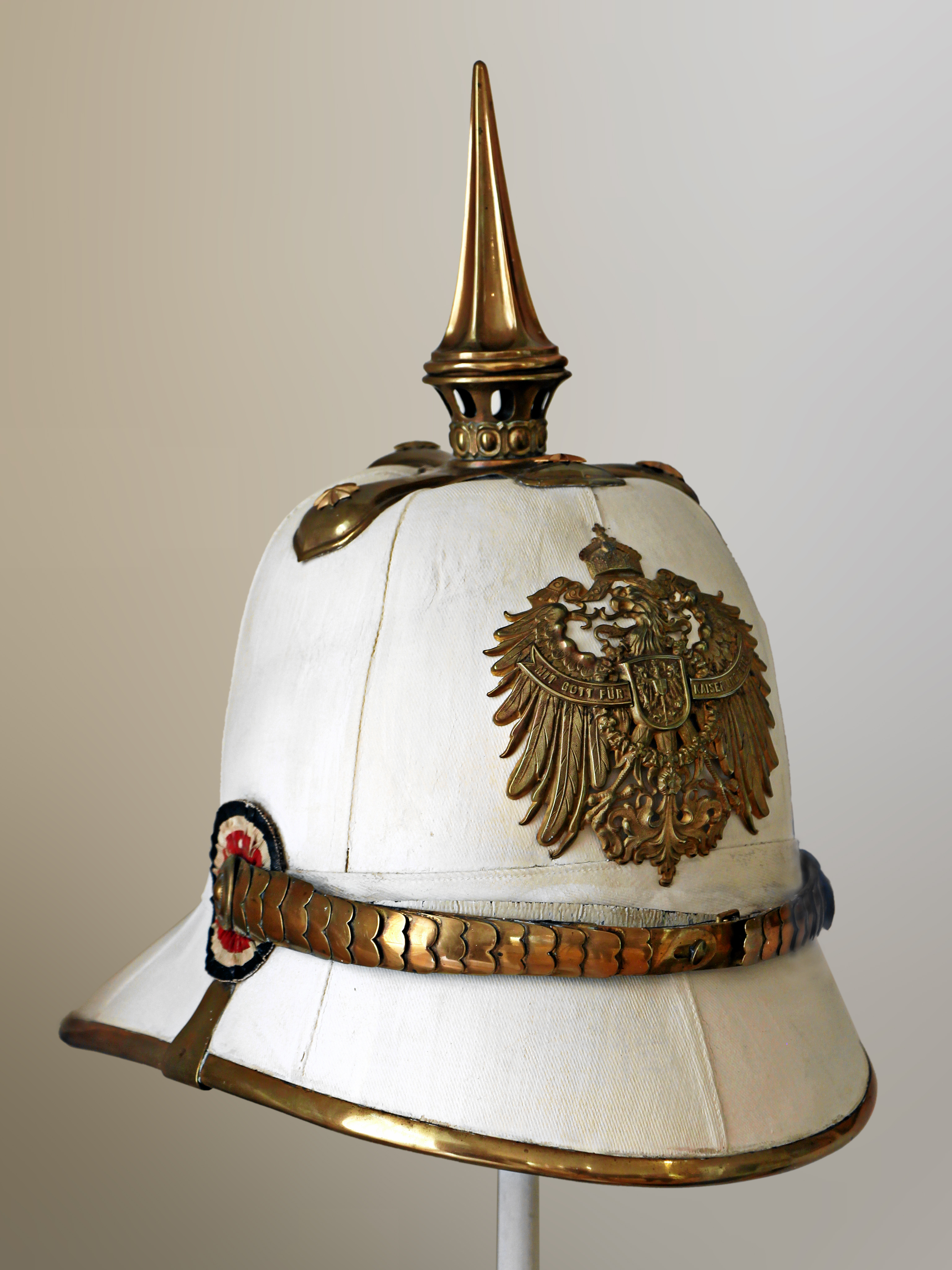 Provincial Museum of Brunswick. From the possession of Wilhelm Wassmuss, from the county of Brunswick, who worked in the Foreign Service of the German Reich. Pith helmet, Steel/Textiles, around 1910.